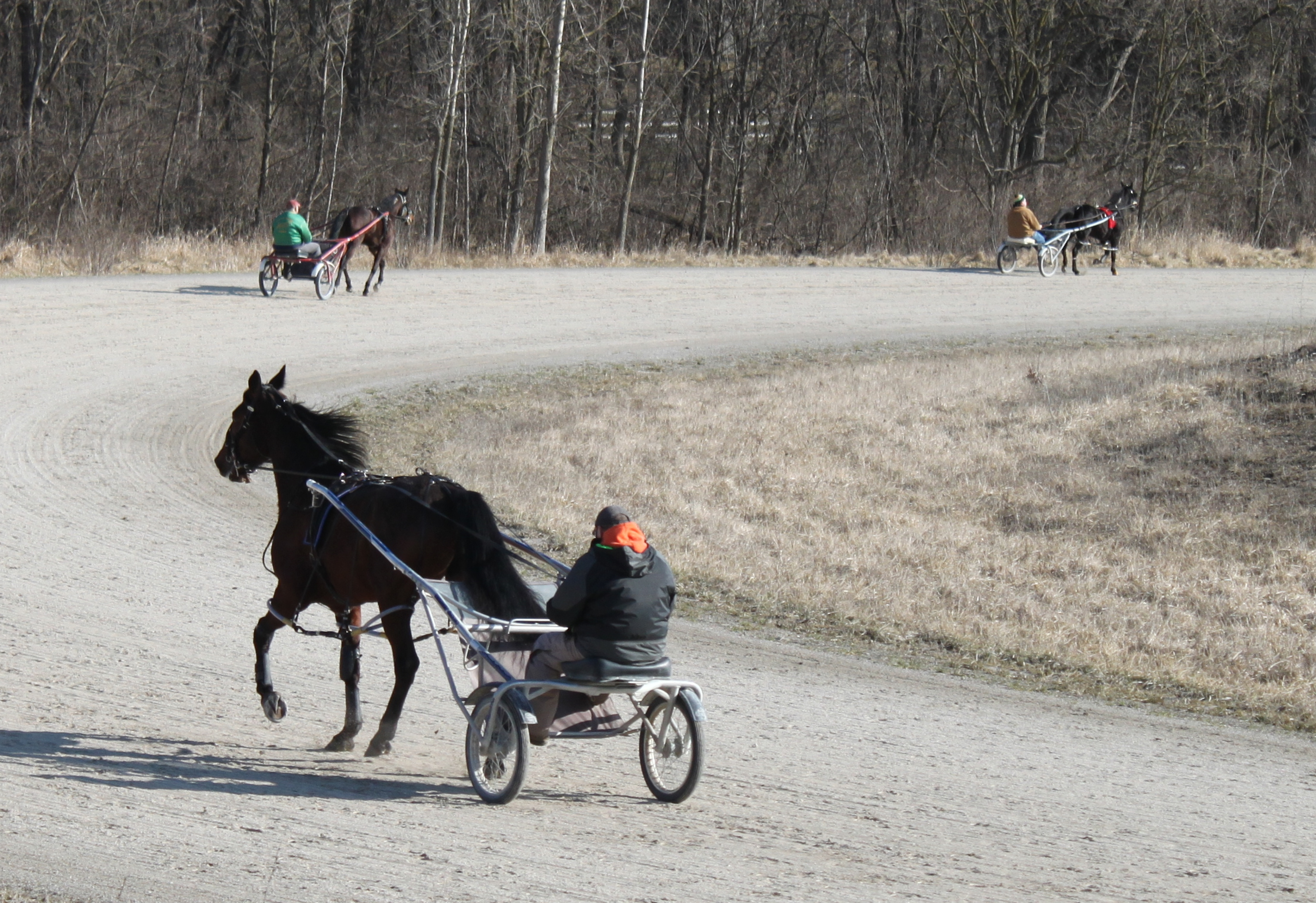 Harness racing horses being exercised, Perfecta Farms, 8292 North Territorial Road, Salem Township, Michigan.